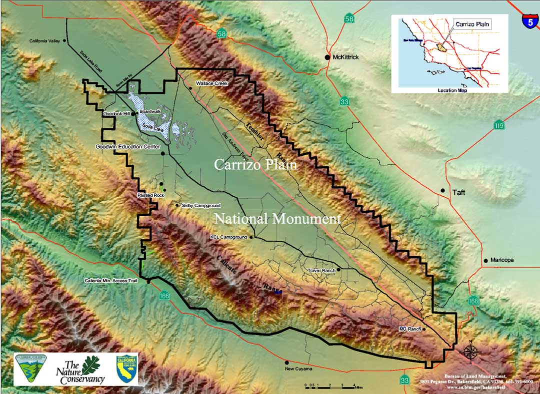 relief map of Carrizo Plain National Monument, California